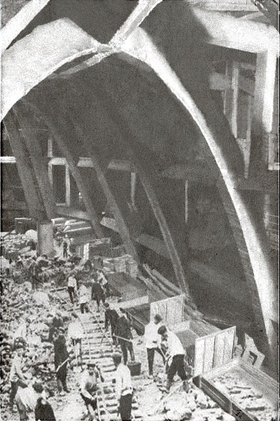 Budapest Zoo & Botanical Garden: Construction of the artificial rock, containing a water reservoir. The photo was taken in approx. 1907.